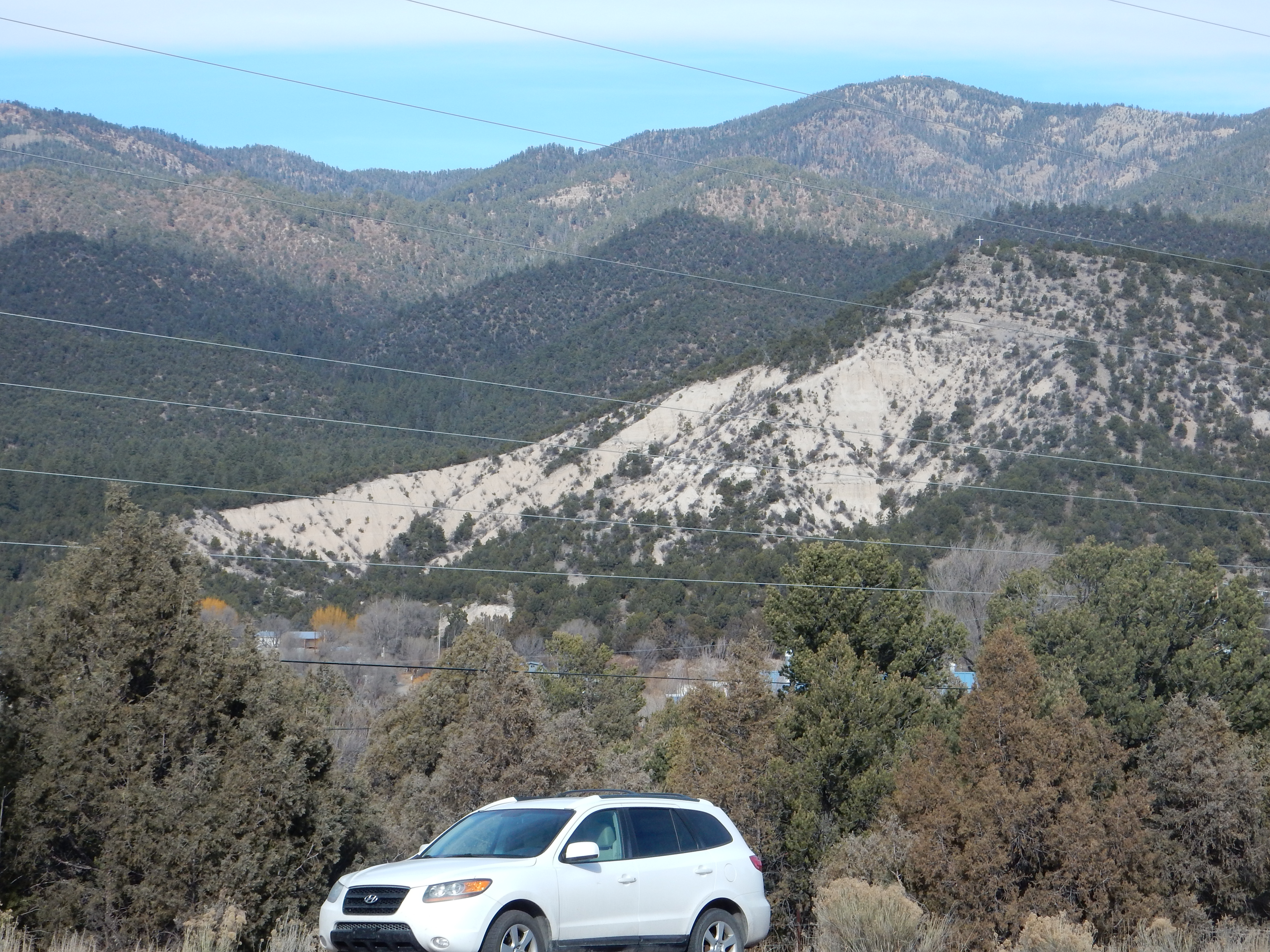 This photograph shows part of the Picuris Mountains near Picuris Pueblo. The PIcuris Mountains are a subrange of the southern Sangre de Cristo Mountains in northern New Mexico, United States.